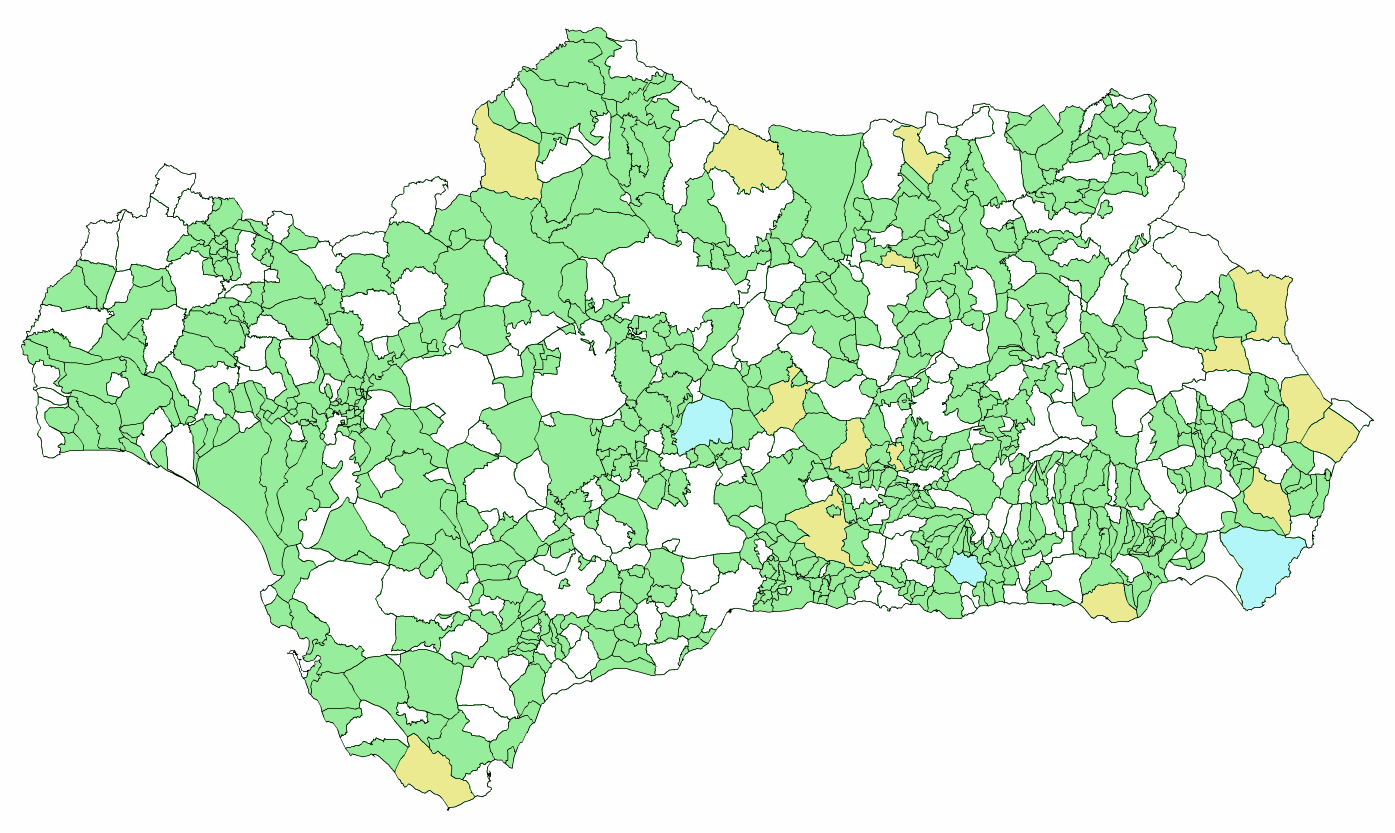 Andalusian municipalities surveyed on the ALEA (Linguistic and Ethnographic Atlas of Andalusia) White: Respondents in the seat of the municipality town. Yellow: Respondents in different location of the seat of the municipality town Light blue: Respondents in both the seat of the municipality town as another village.